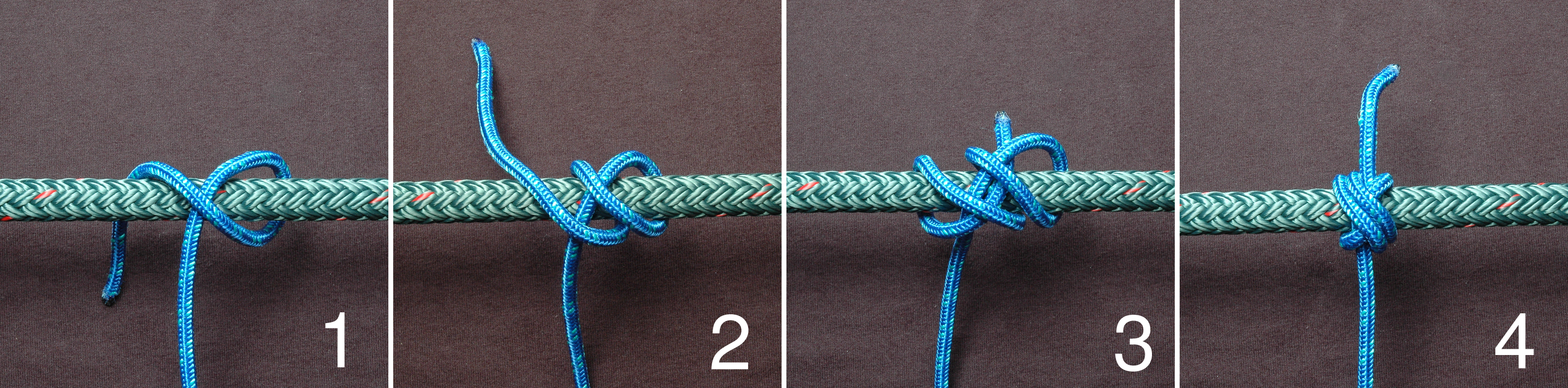 Four steps in tying Double constrictor knot (ABOK #1252).